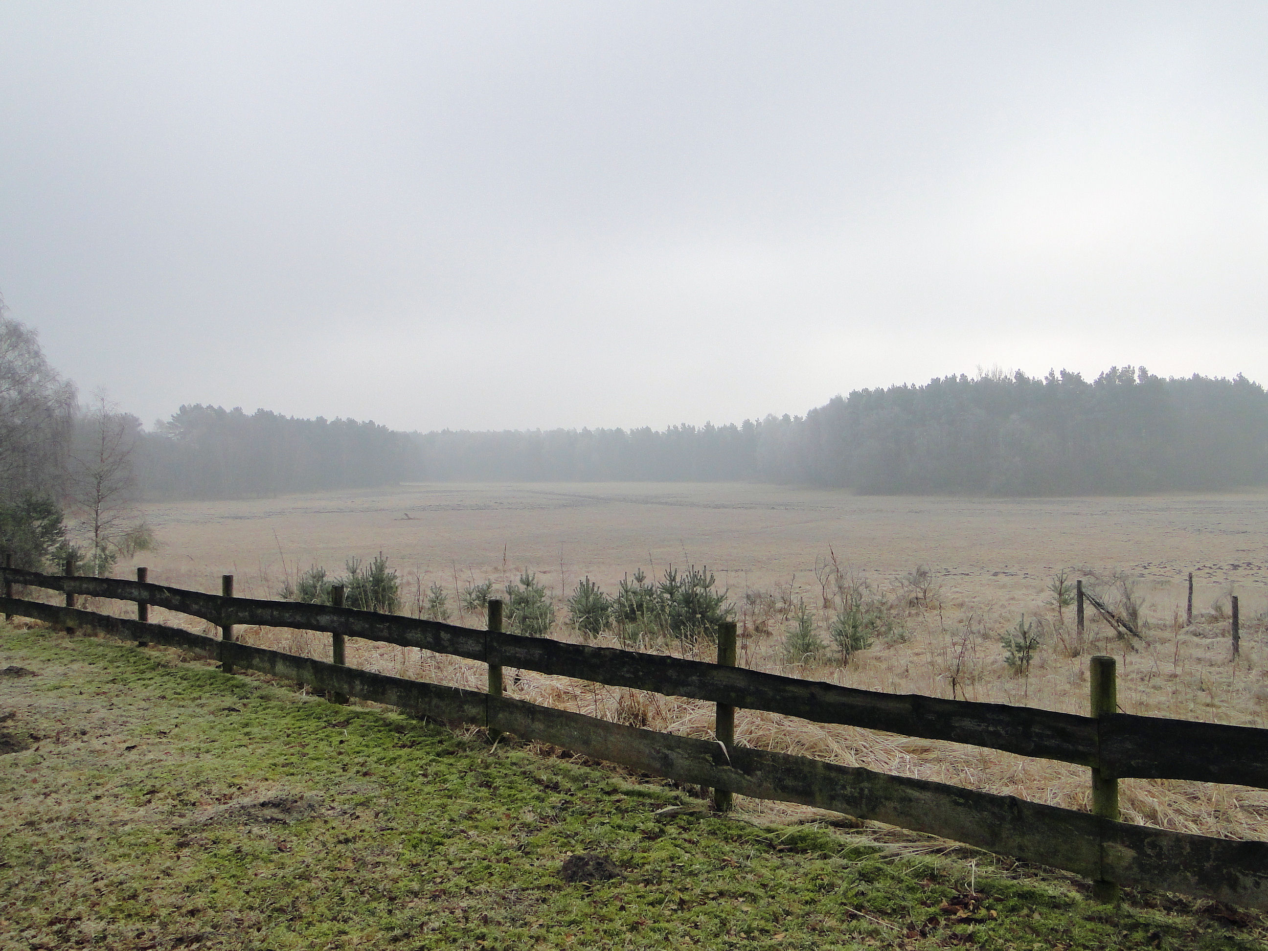 Landscape in Neu Schwinz, district Parchim, Mecklenburg-Vorpommern, Germany